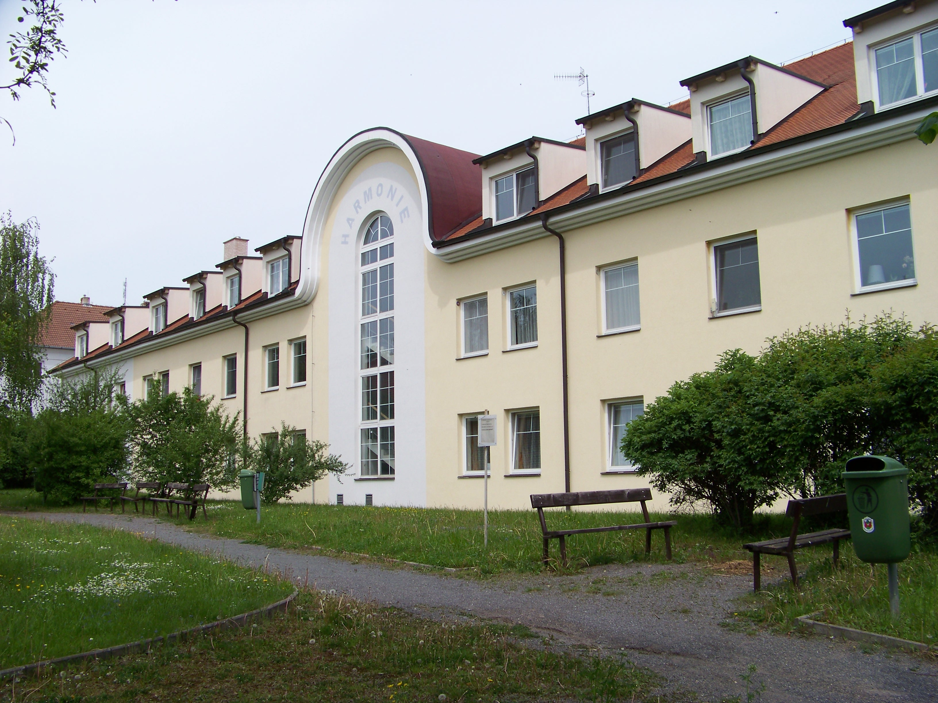 Prague-Dubeč, Czech Republic. U lípy svobody square 547.